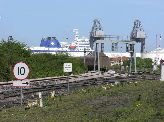 Railway Junction, west end A busy rail junction at the western end of the dock, tracks curving to the left lead into the iron ore and coal stacking areas which have heavy rail traffic to Scunthorpe steelworks and various power stations. Track leading to the right serves chemical storage on the north-west side of the dock estate. The ship behind is in the new Immingham Outer Harbour berth, inside the iron ore jetty.